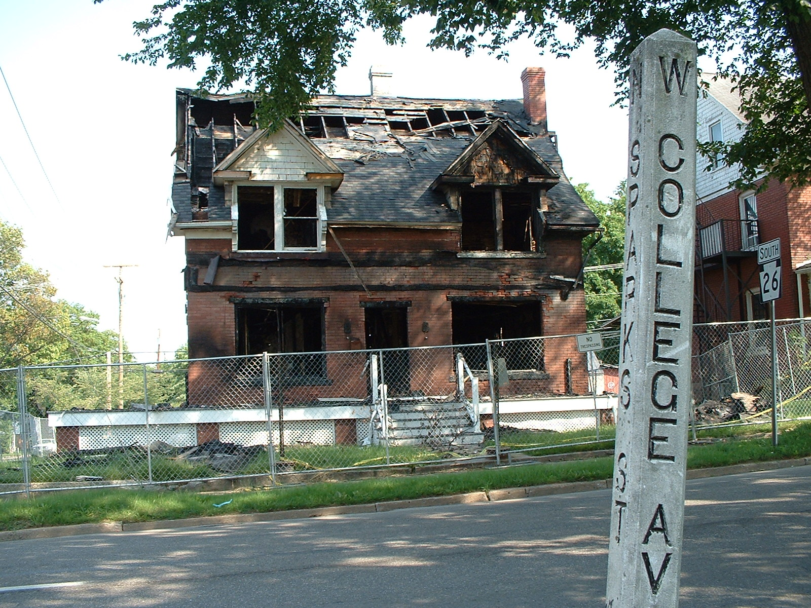 Exterior of a burned house located several blocks southwest of Penn State University, University Park, Pennsylvania.